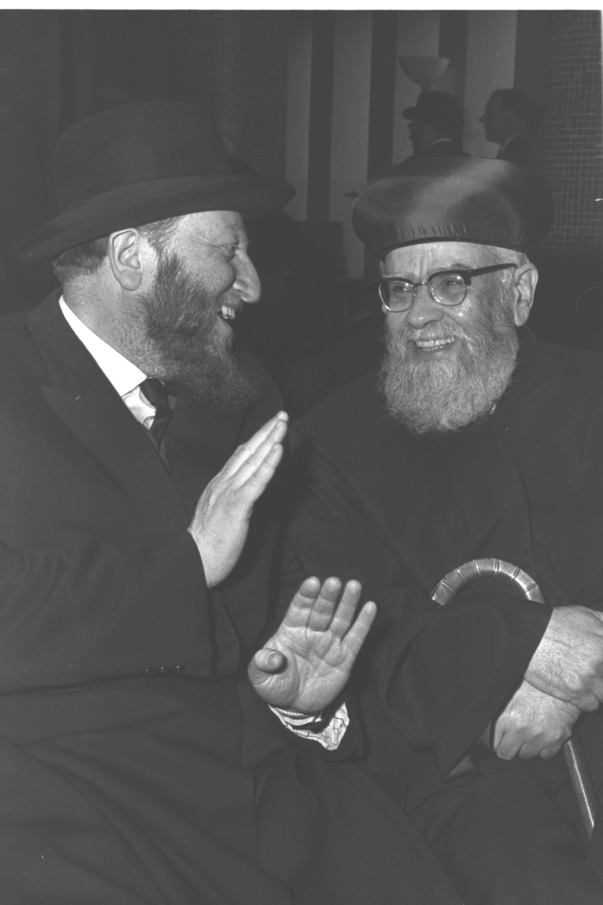 SEPHARDI CHIEF RABBI YITZHAK NISSIM (R) LAUGHING WITH RABBI ZOLTI OF JERUSALEM, AFTER THE ELECTIONS FOR THE CHIEF RABBINATE, HELD AT "HEICHAL SHLOMO" IN JERUSALEM.